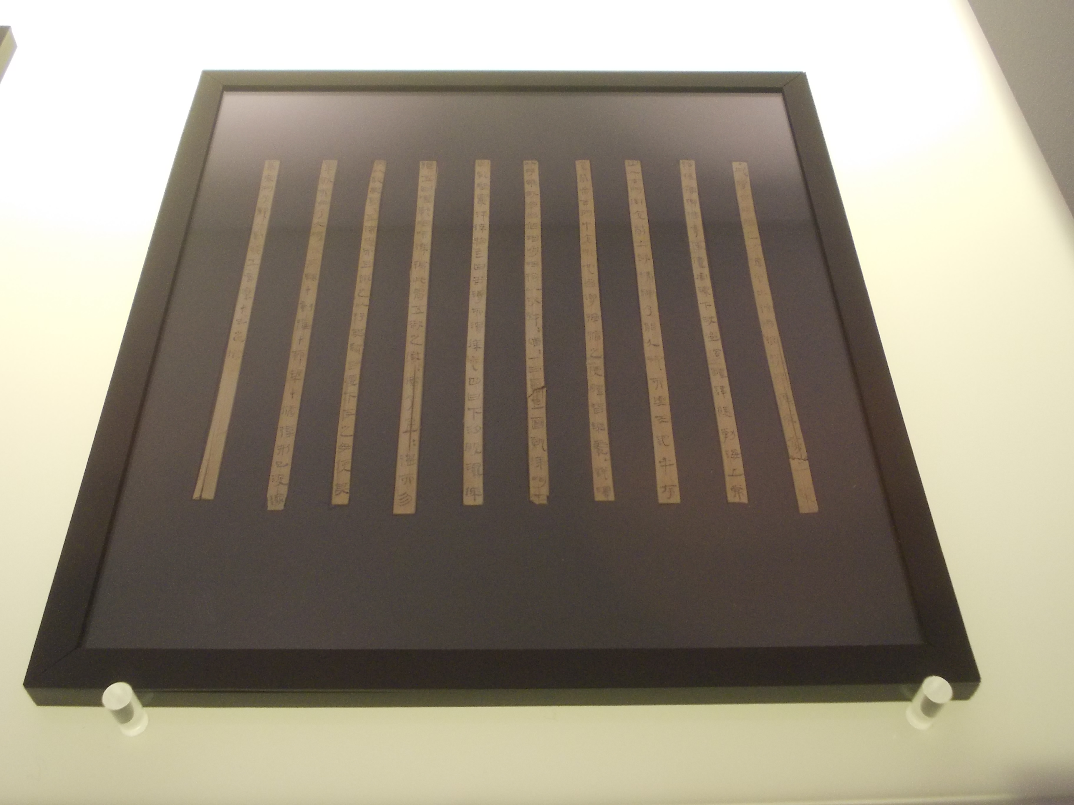 Text on bamboo strips found at Mawangdui